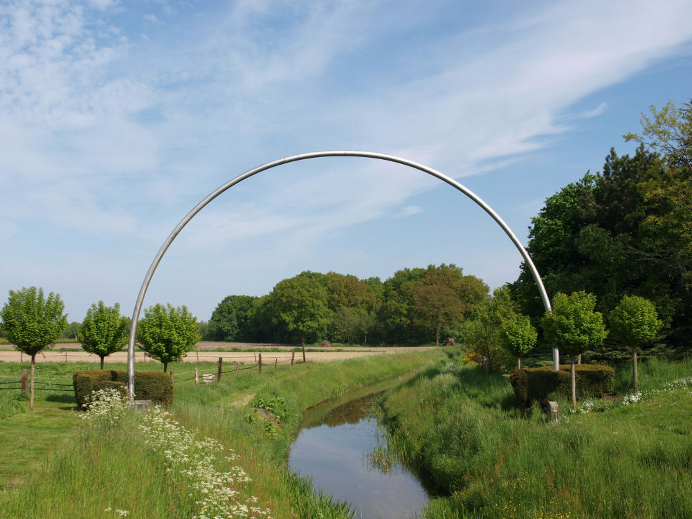 niederländisch-deutscher Grenzübergang zwischen Denekamp (NL) und Nordhorn (D)